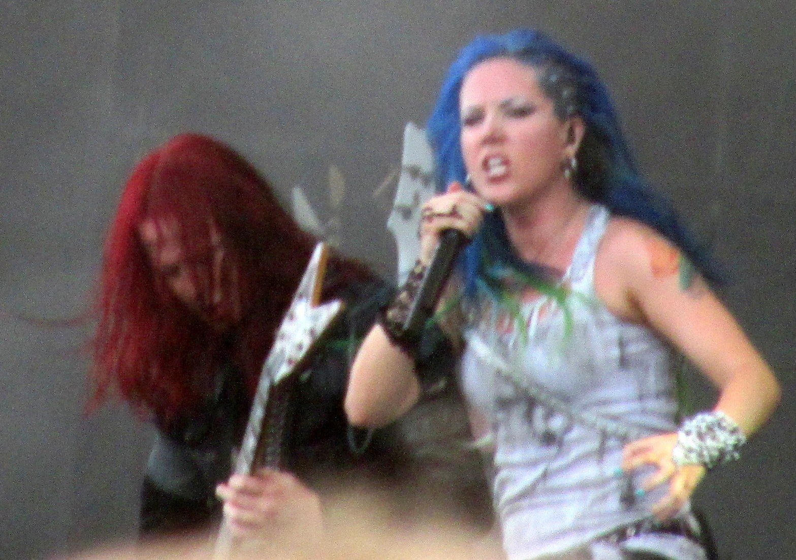 Alissa White-Gluz and Michael Amott from Arch Enemy at Wacken Open Air 2014